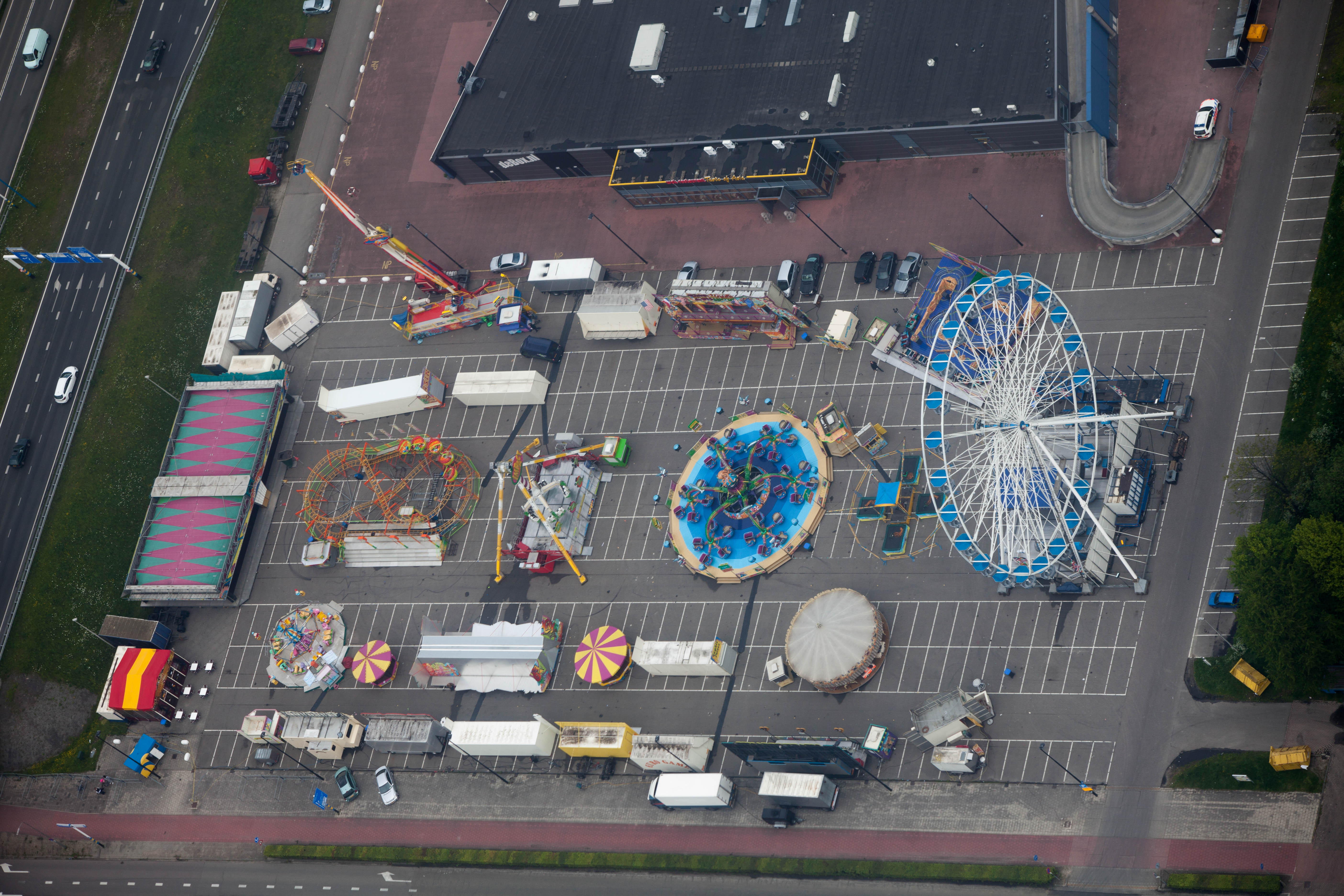 Funfair in on the Van der Hagenstraat parking lot in Zoetermeer.